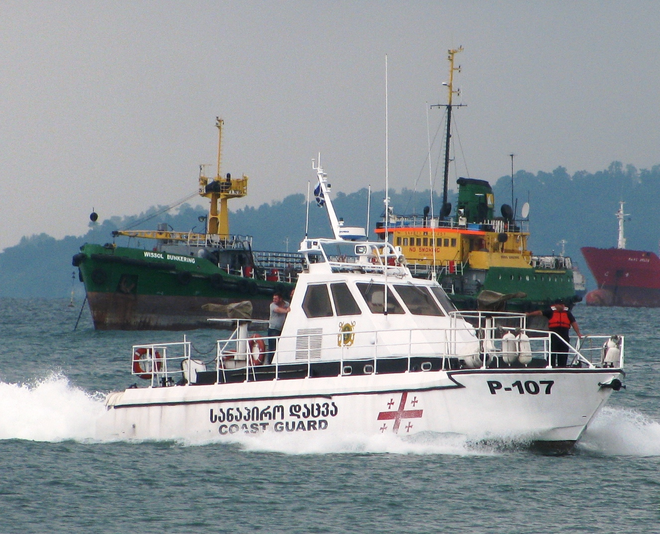 Adjara in 2010